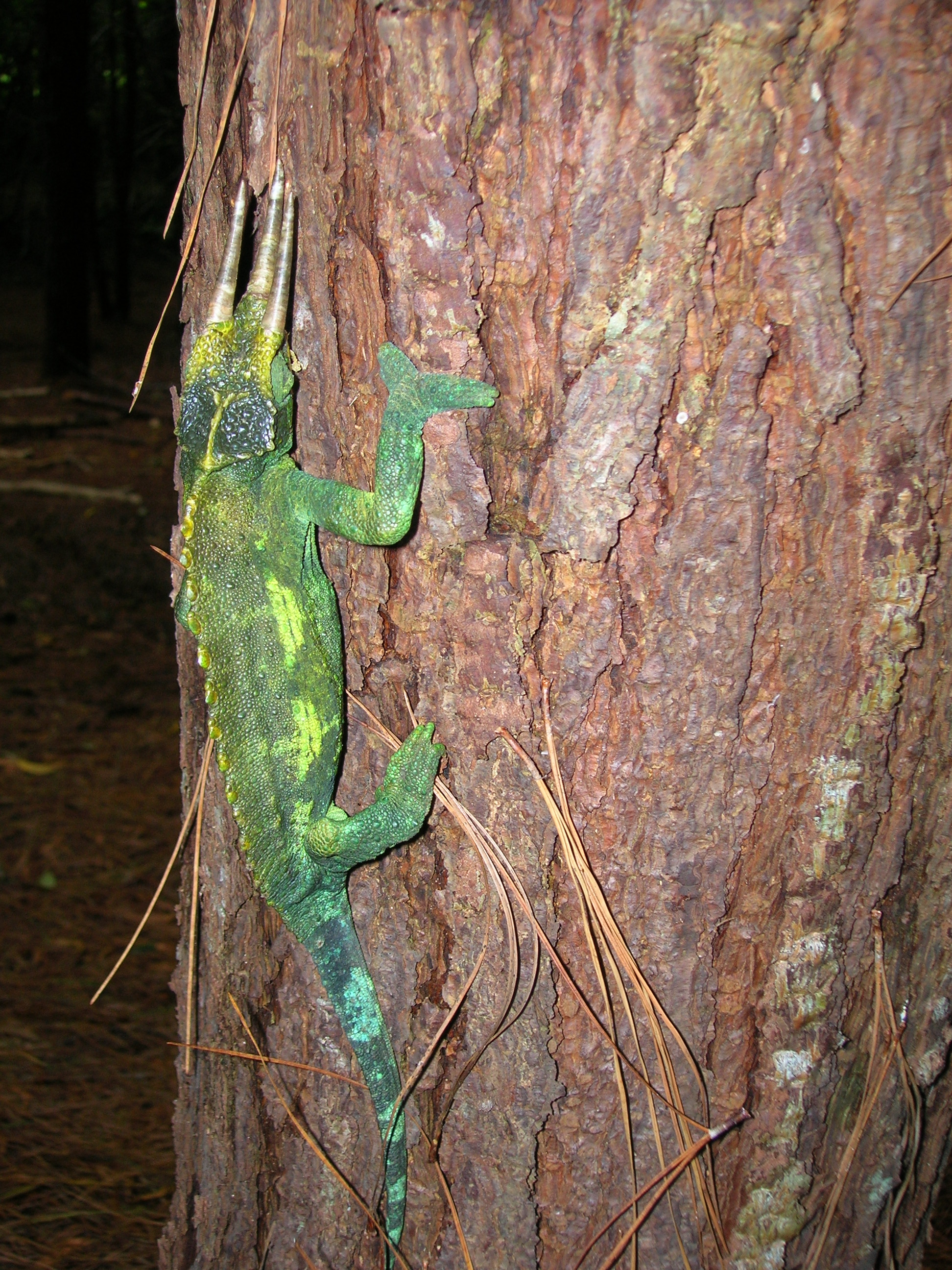 Jackson's Chameleon Chamaeleo jacksonii on Pinus hondurensis bark. Location: Maui, Makawao Forest Reserve